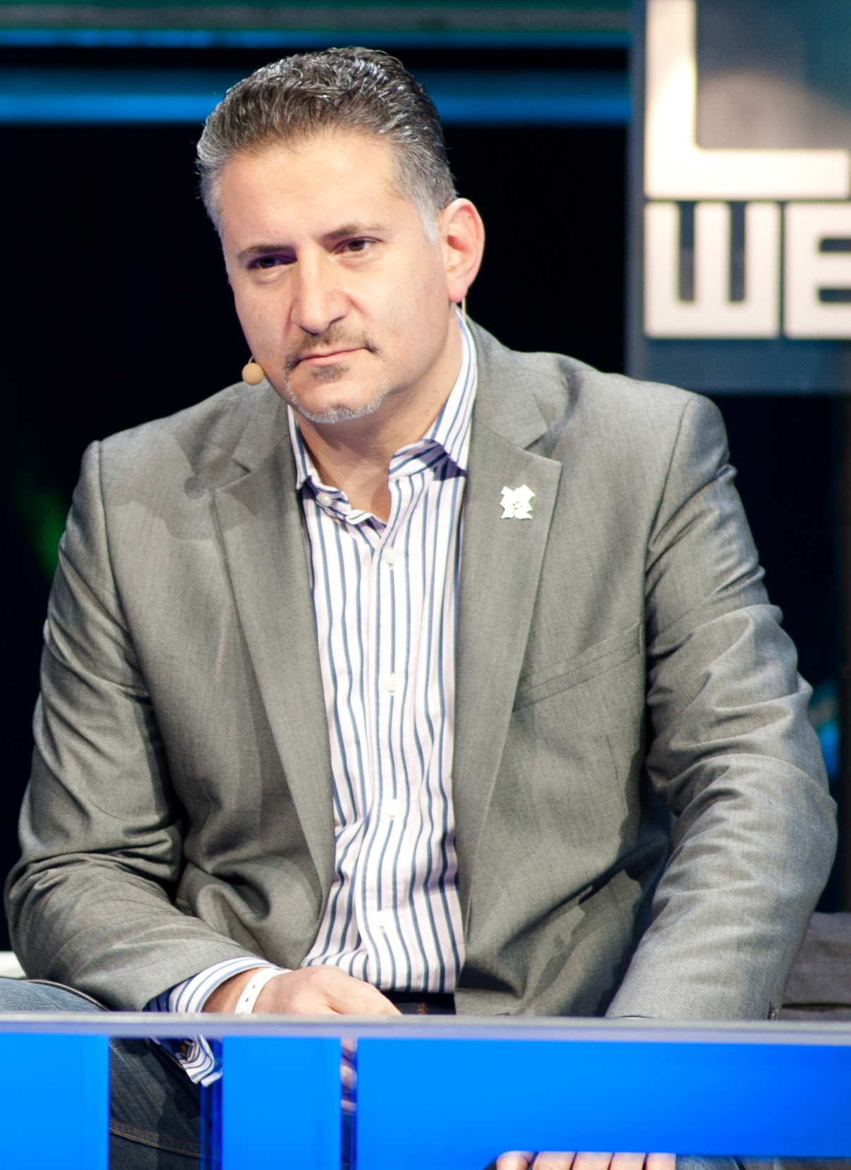 Eric van der Kleij(Photos by @Kmeron for LeWeb11 Conference @ Les Docks -Paris-)